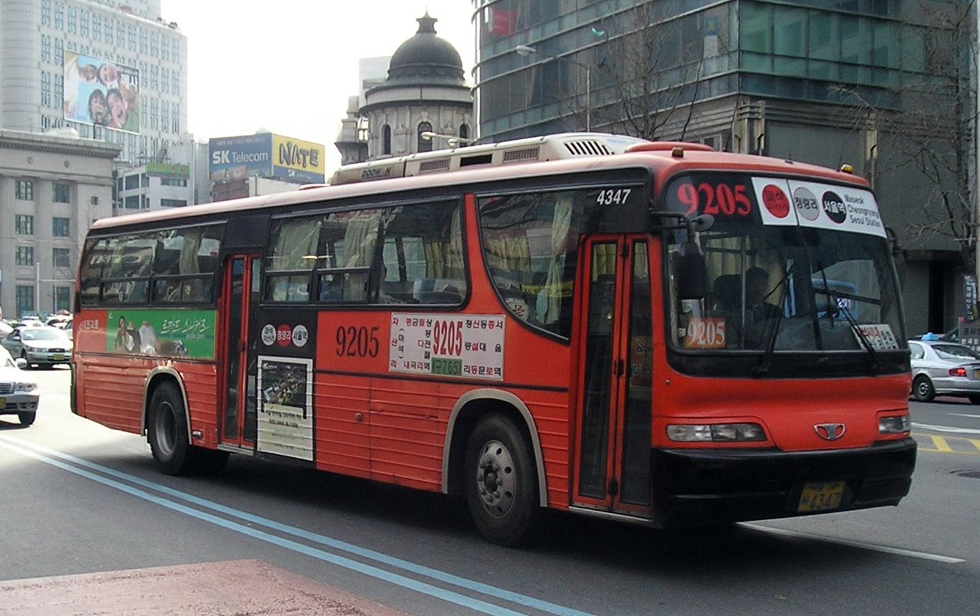 The Seoul City Red bus route 9205.